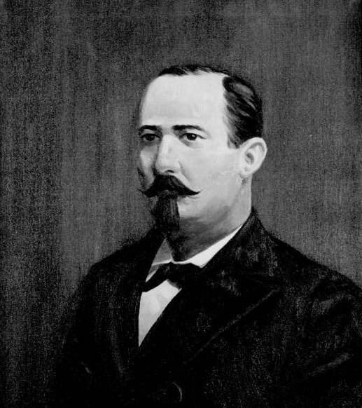 Charles Dougherty (October 15, 1850 – October 11, 1915) was a U.S. Democratic politician.